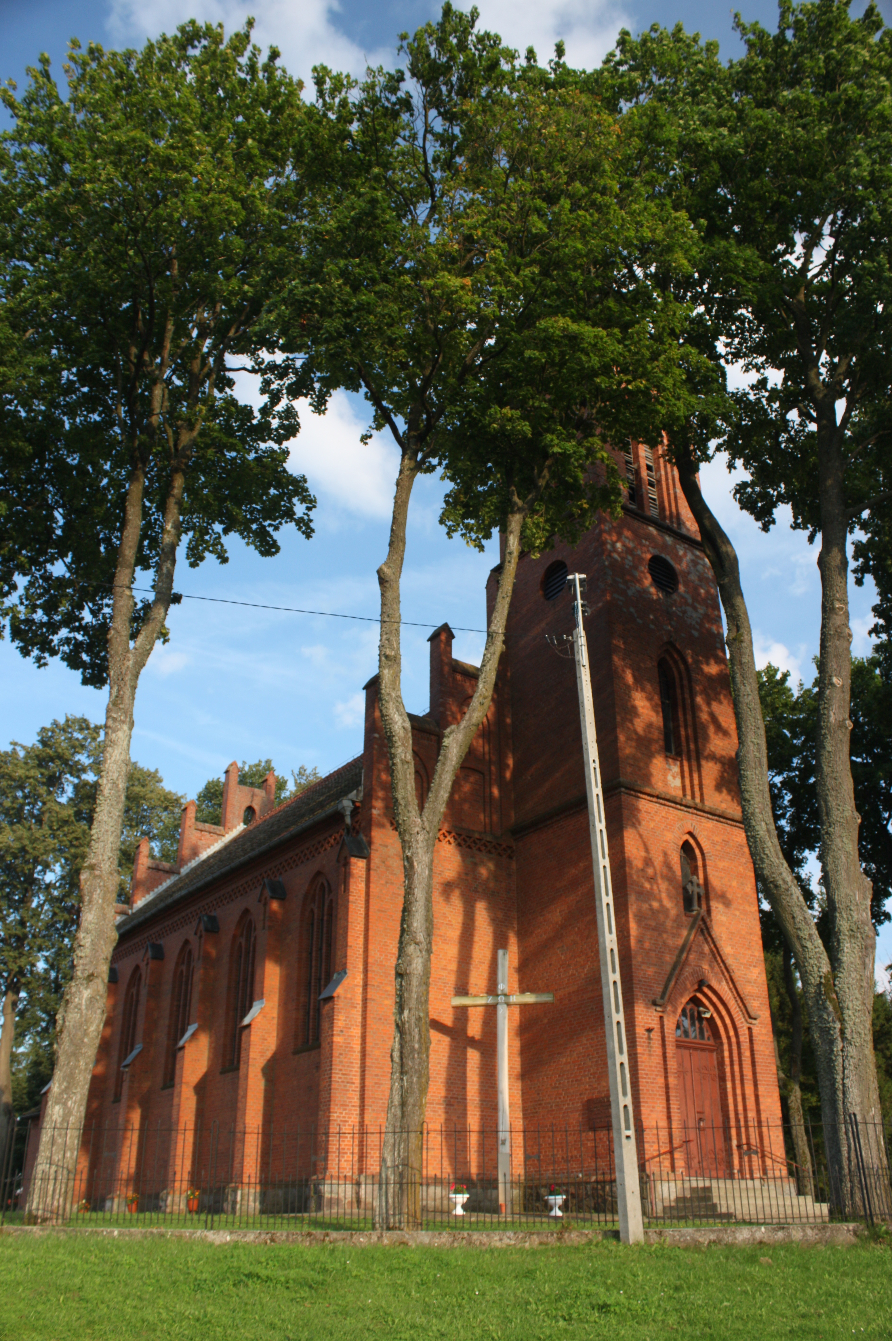 Holy Trinity church in Dźwierzuty.